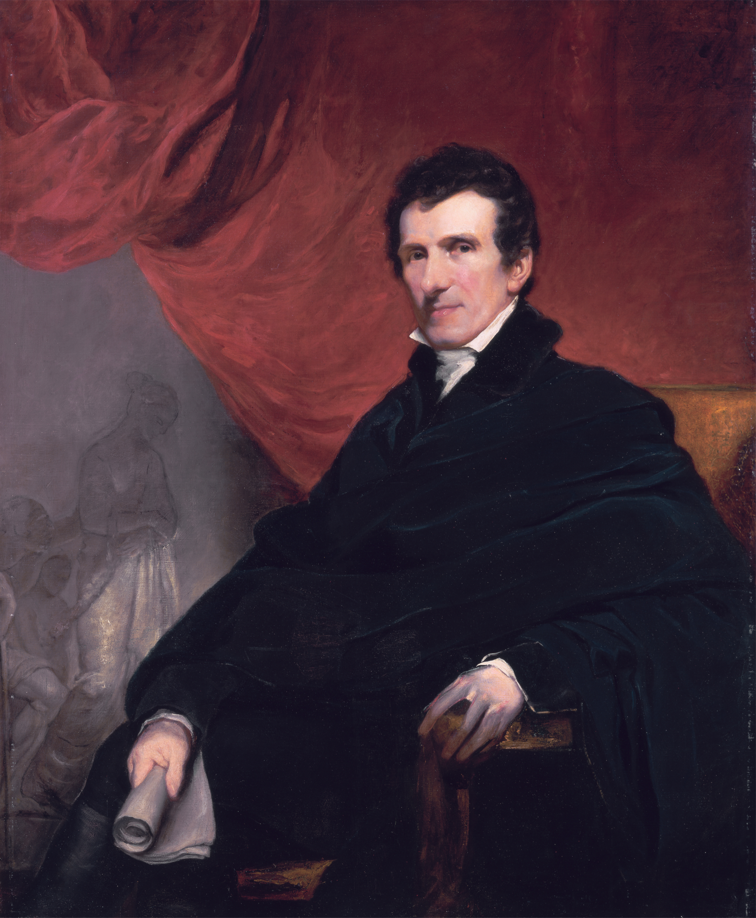 Antonio Canova oil on canvas 124.5 x 102.2 cm